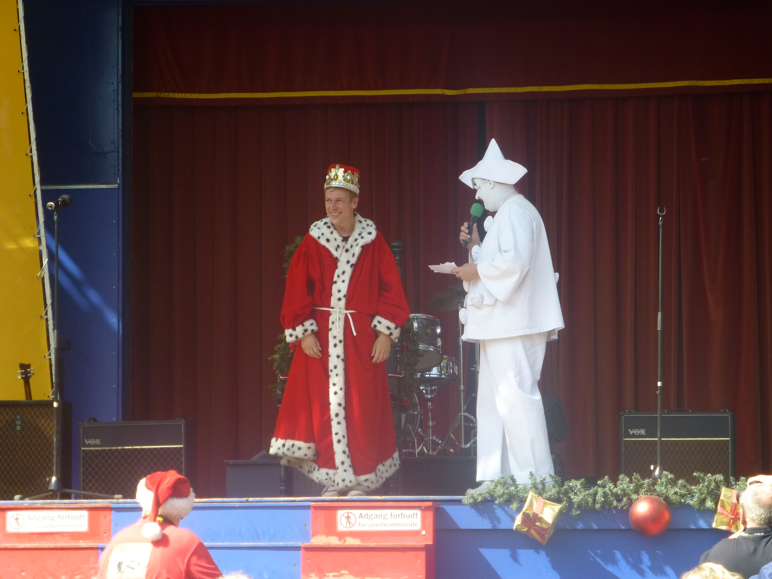 Julemændenes Verdenskongres (World Santa Claus Congress) in the amusement park Dyrehavsbakken north of Copenhagen. Television host Jens Blauenfeldt has been crowned as honour Santa Claus of the year.